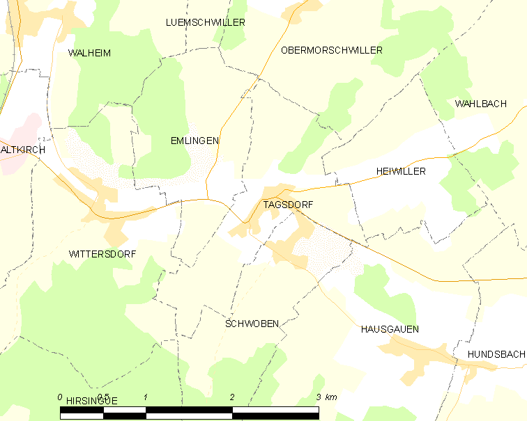 Map of French municipality